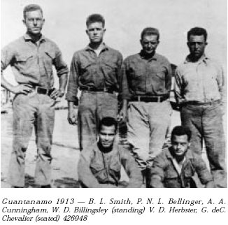 Freely published image found at home.